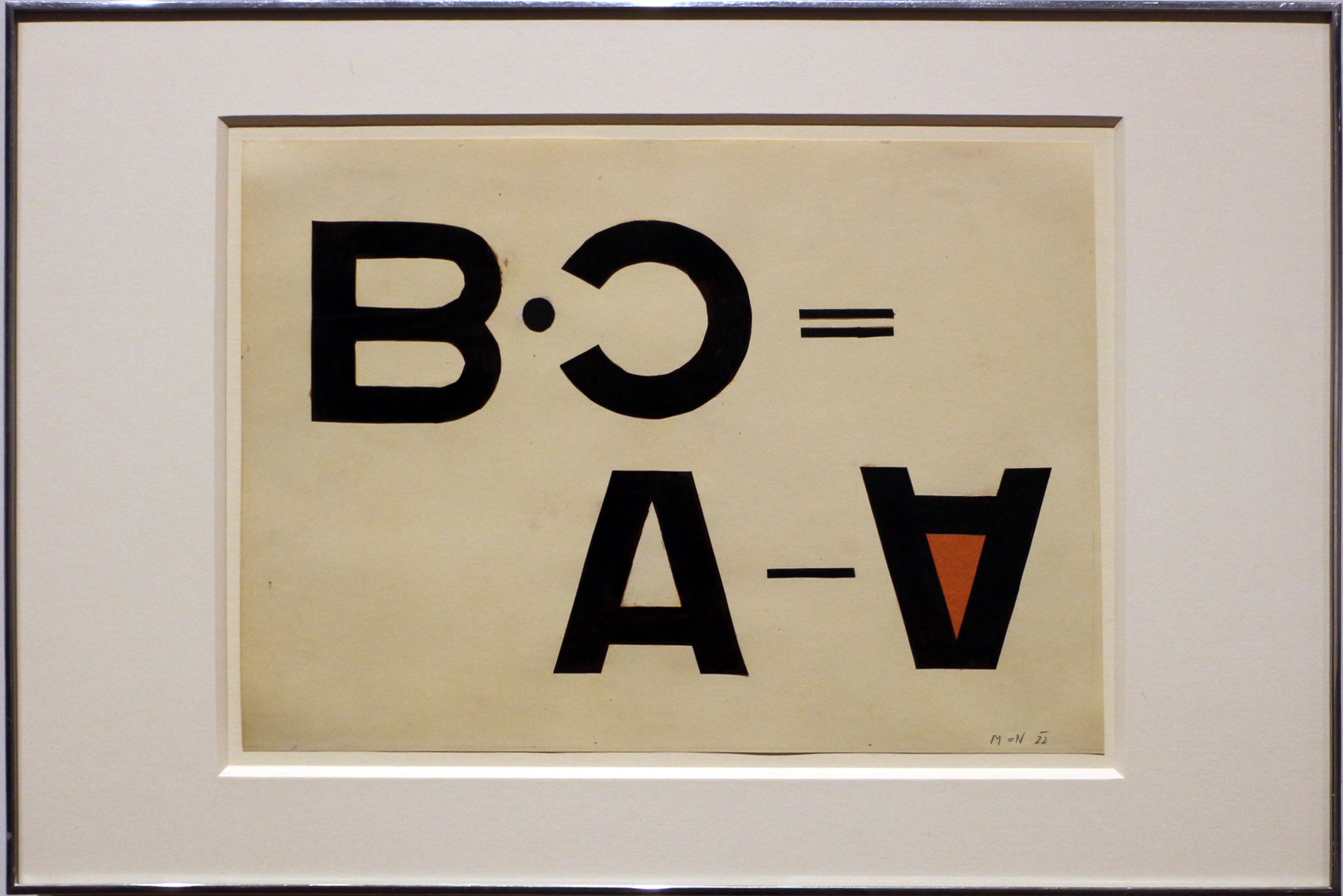 Moholy-Nagy: Future Present (2016 exhibition)